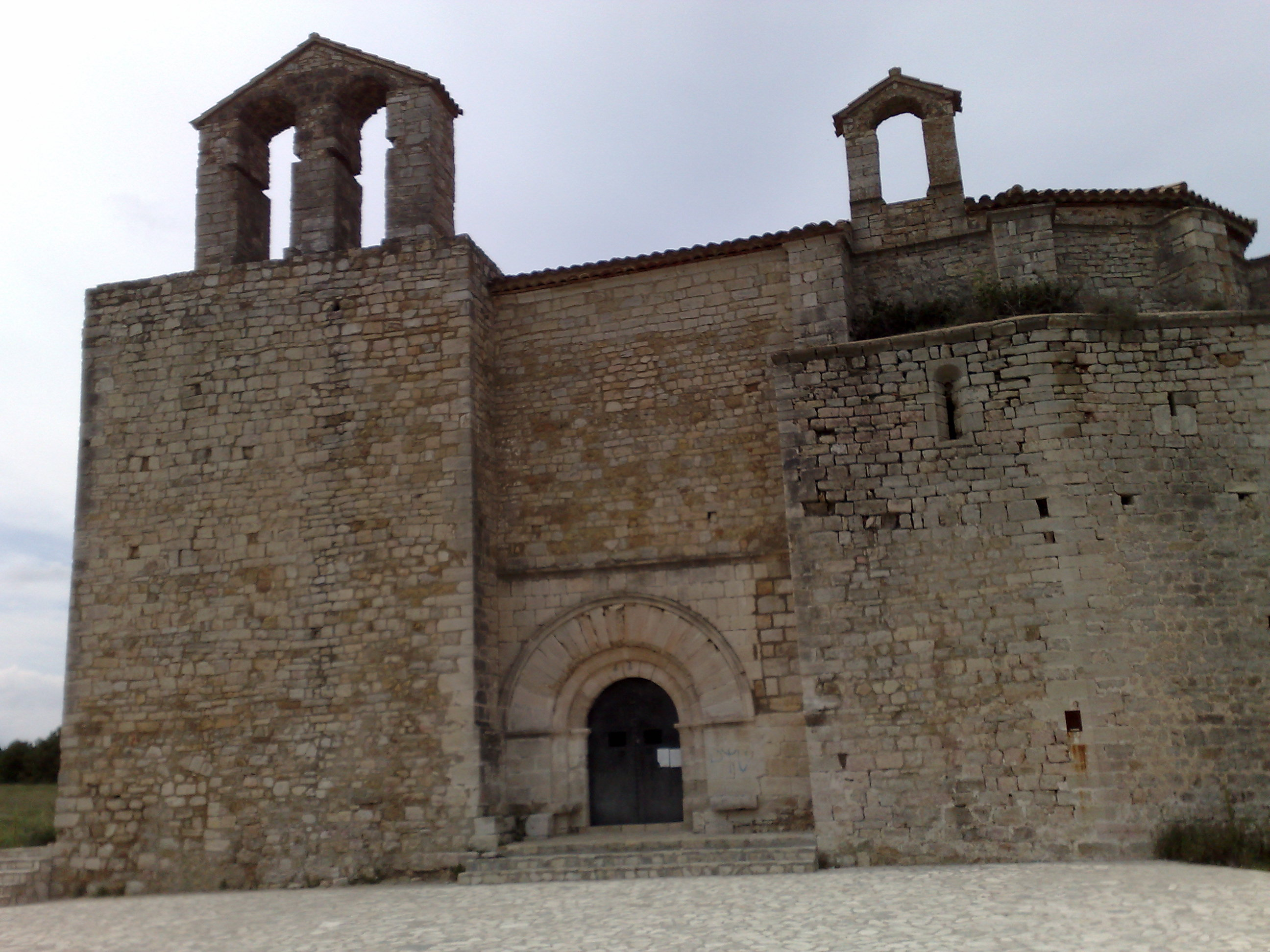 Sant Jaume de Montagut